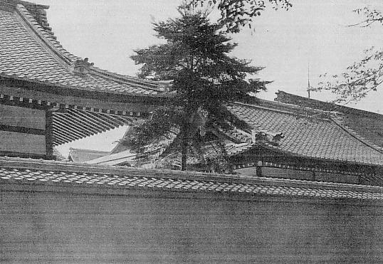 Three Palace Sanctuaries in the Taisho era